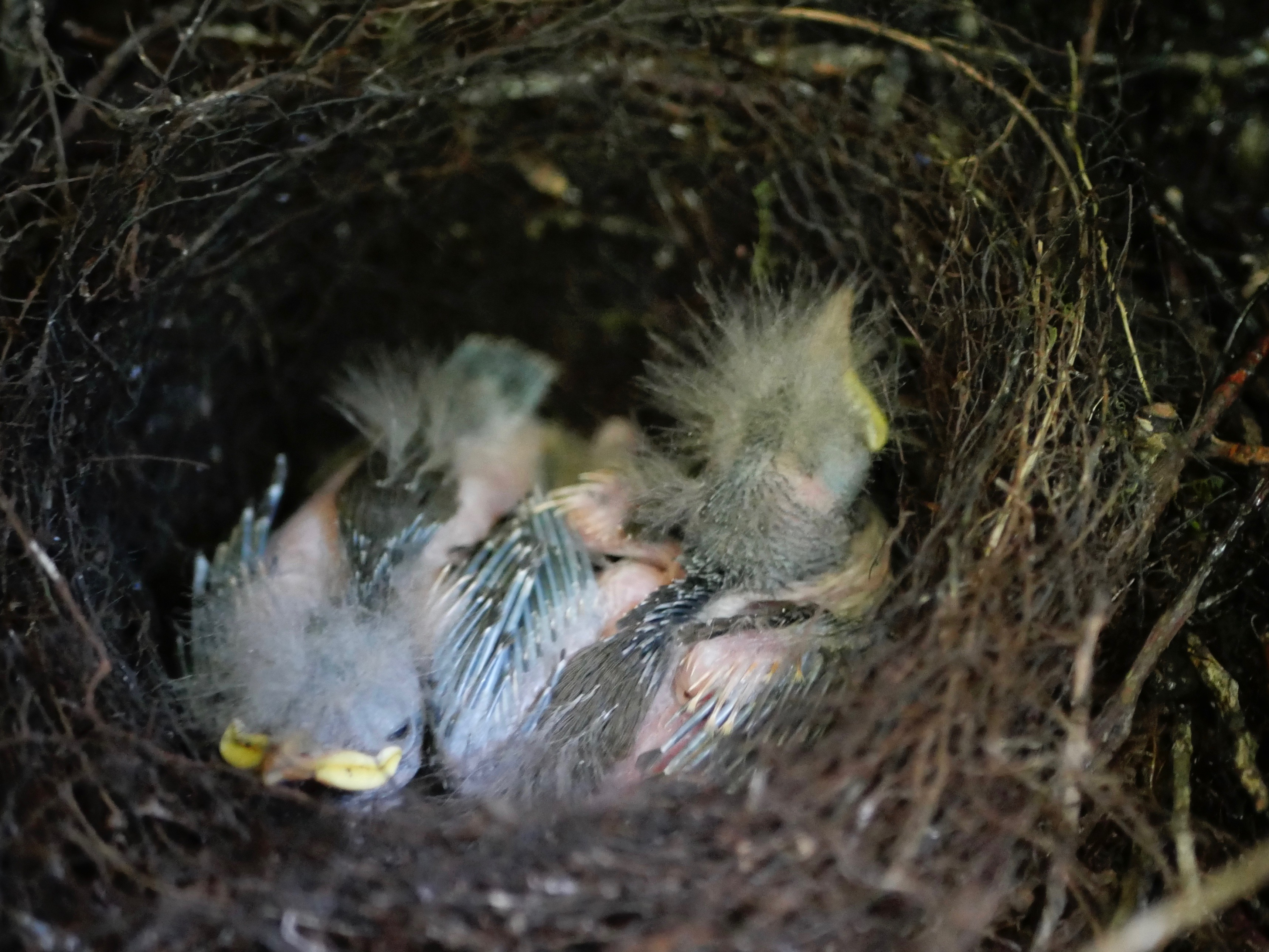 Two hihi (Notiomystis cincta, stitchbird) chicks (about 10 days old) in a nest in an artificial nest box at Zealandia Ecosanctuary, Wellington